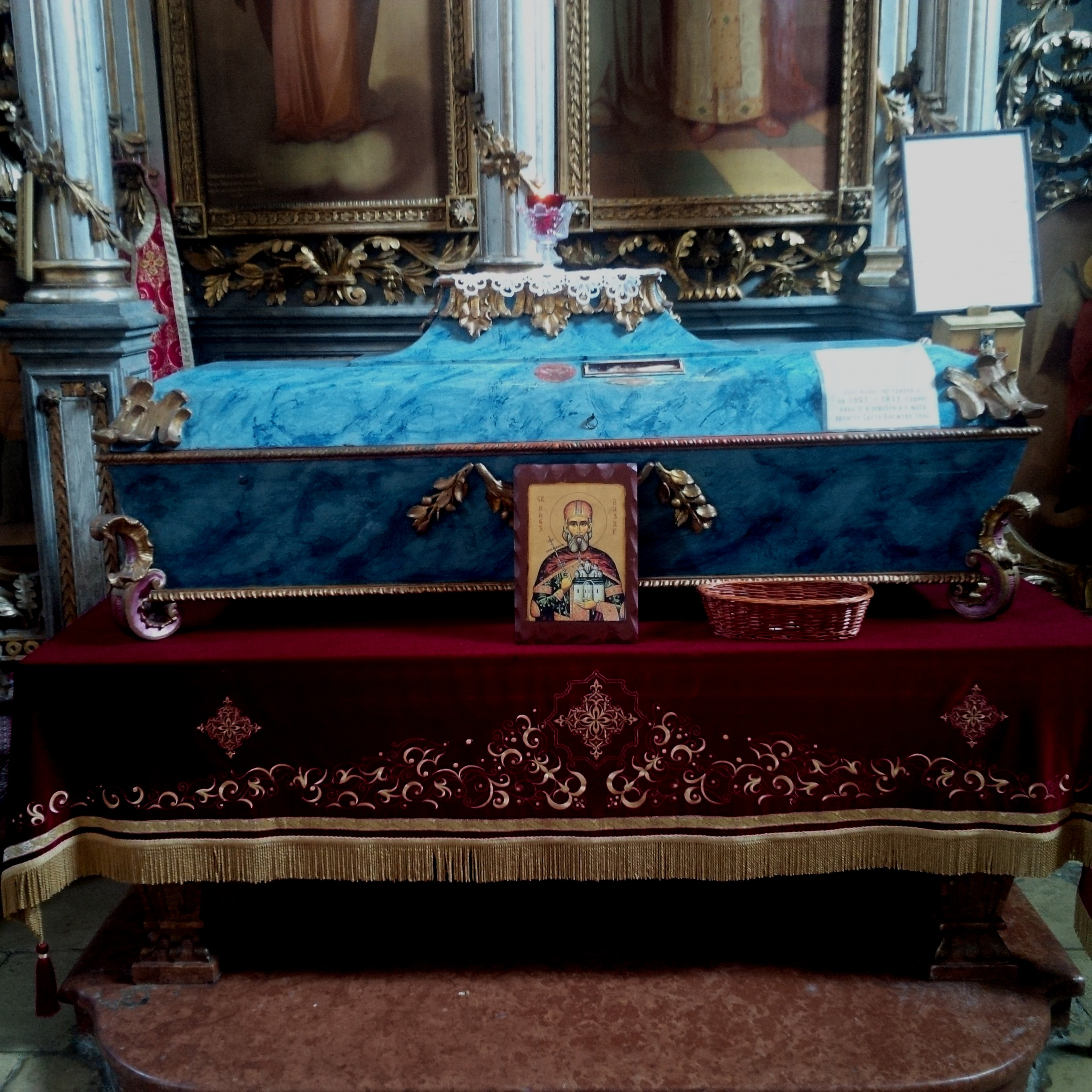 Relics of Prince Lazar of Serbia, kept in Ravanica Monastery in Vrdnik